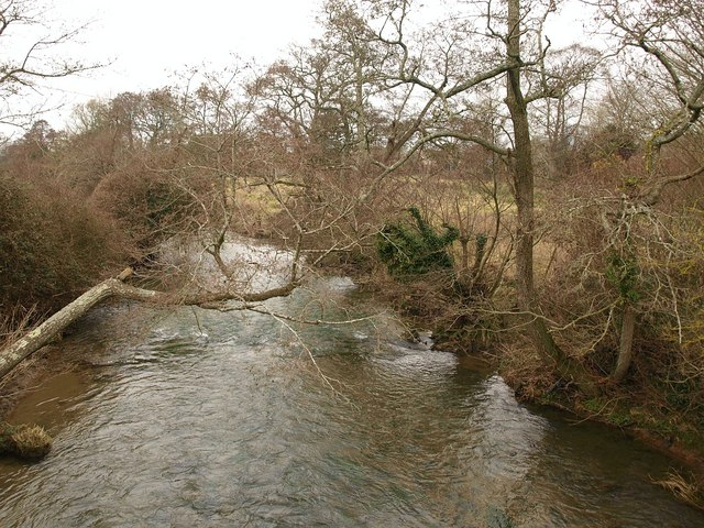 River Yeo at Bradford Abbas. Looking downstream from one of the cutwaters of 763879. The bridge is C16 .